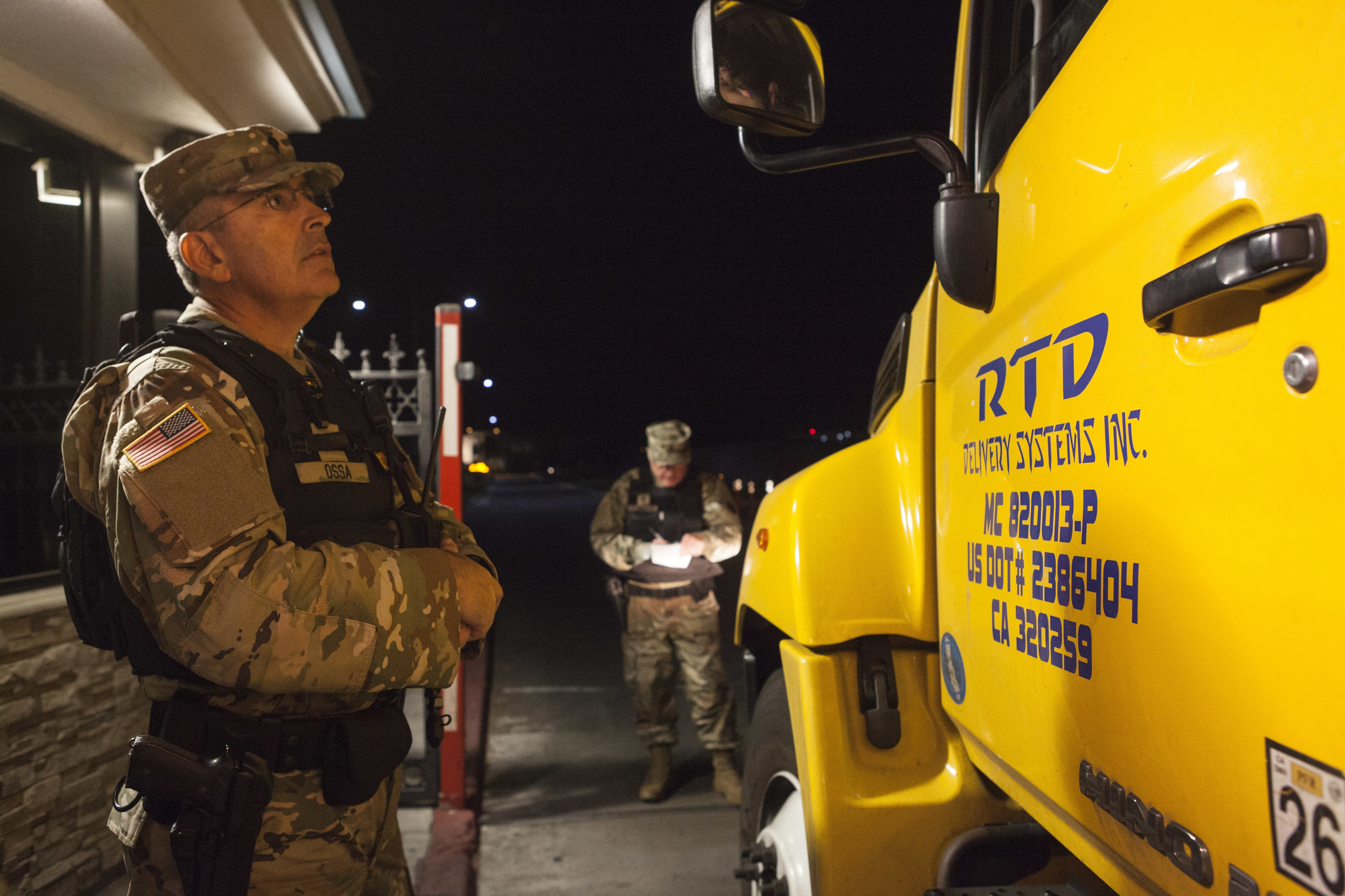 California State Military Reserve Spc. Juan Ossa, of the Installation Support Command, talks with a truck driver delivering supplies to an emergency supply staging area at Joint Forces Training Base, Los Alamitos, California, Dec. 11, 2017. Ossa was put on emergency state active duty to augment the base's security forces as it became a hub for 24/7 operations by the California National Guard and other agencies responding to multiple wildfires burning in Southern California. (U.S. Air National Guard photo by Senior Airman Crystal Housman)